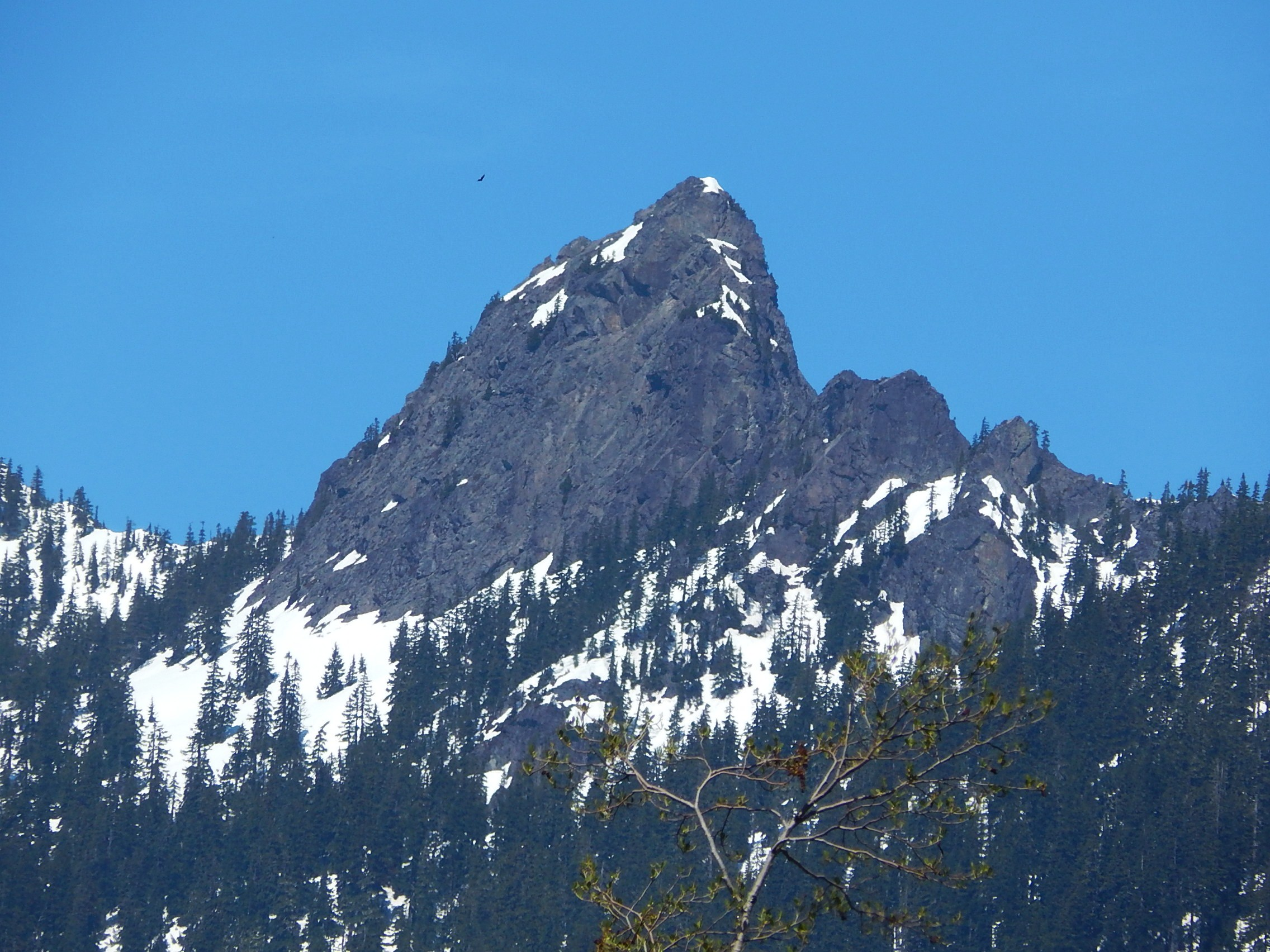 The Tooth in the Cascade Range near Snoqualmie Pass, WA